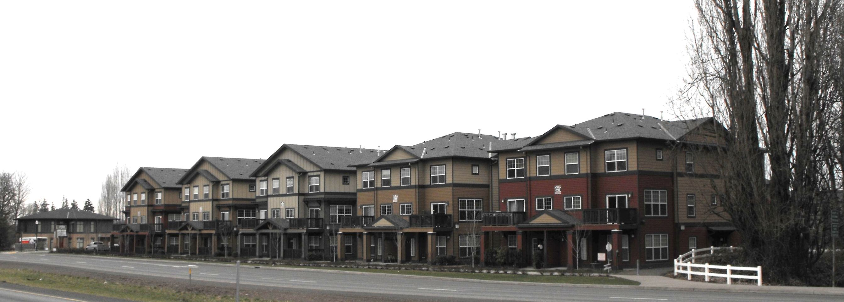 Modern condos along 99 west in Sherwood, Oregon